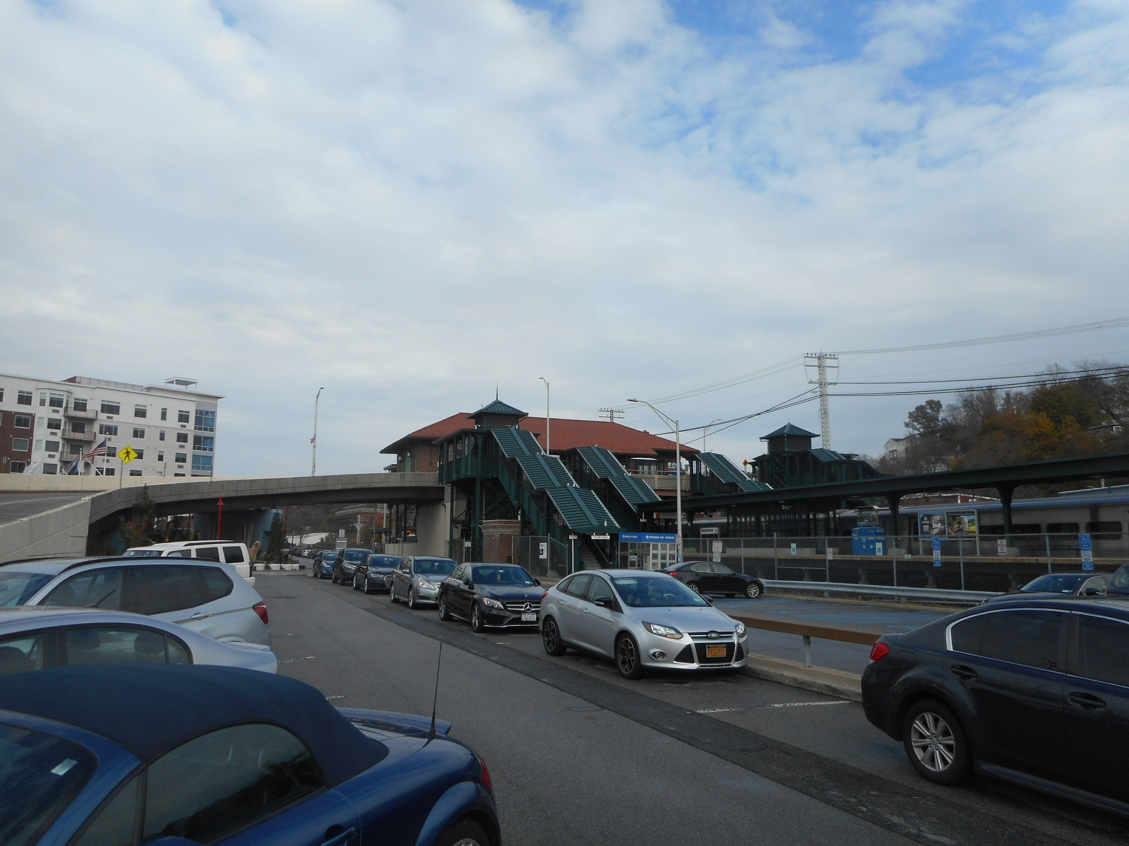 Ossining's Metro-North Railroad Station along the Metro-North Hudson Line as seen from Westerly Road in the Village of Ossining, New York. The former New York Central Railroad station house is above the tracks on the north side of the Secor Road bridge which was built in 1914. The bridge has been replaced in 1980, and also runs above Westerly Road. A staircase towards the bridge for the station can be seen next to the parking lot between the street and the tracks, as well as staircases to the Grand Central Terminal-bound platform (where the M7A can be seen along the express tracks), the Poughkeepsie-bound platform, and the Quimby Street parking lot, but elevators also exist for both Westerly Road beneath the staircase, and Quimby Street beneath that staircase. Elevators to the platforms also exist behind the station house.